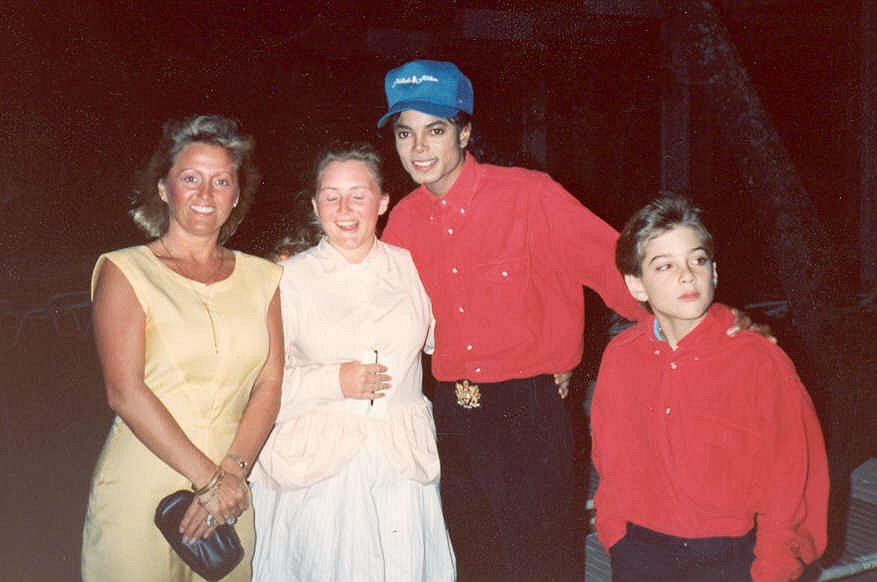 Photo taken at the Kahala Hilton Hotel, late January 1988 - Michael Jackson with the boy from the Pepsi commercial at the time, Jimmy Safechuck, and fans from England.